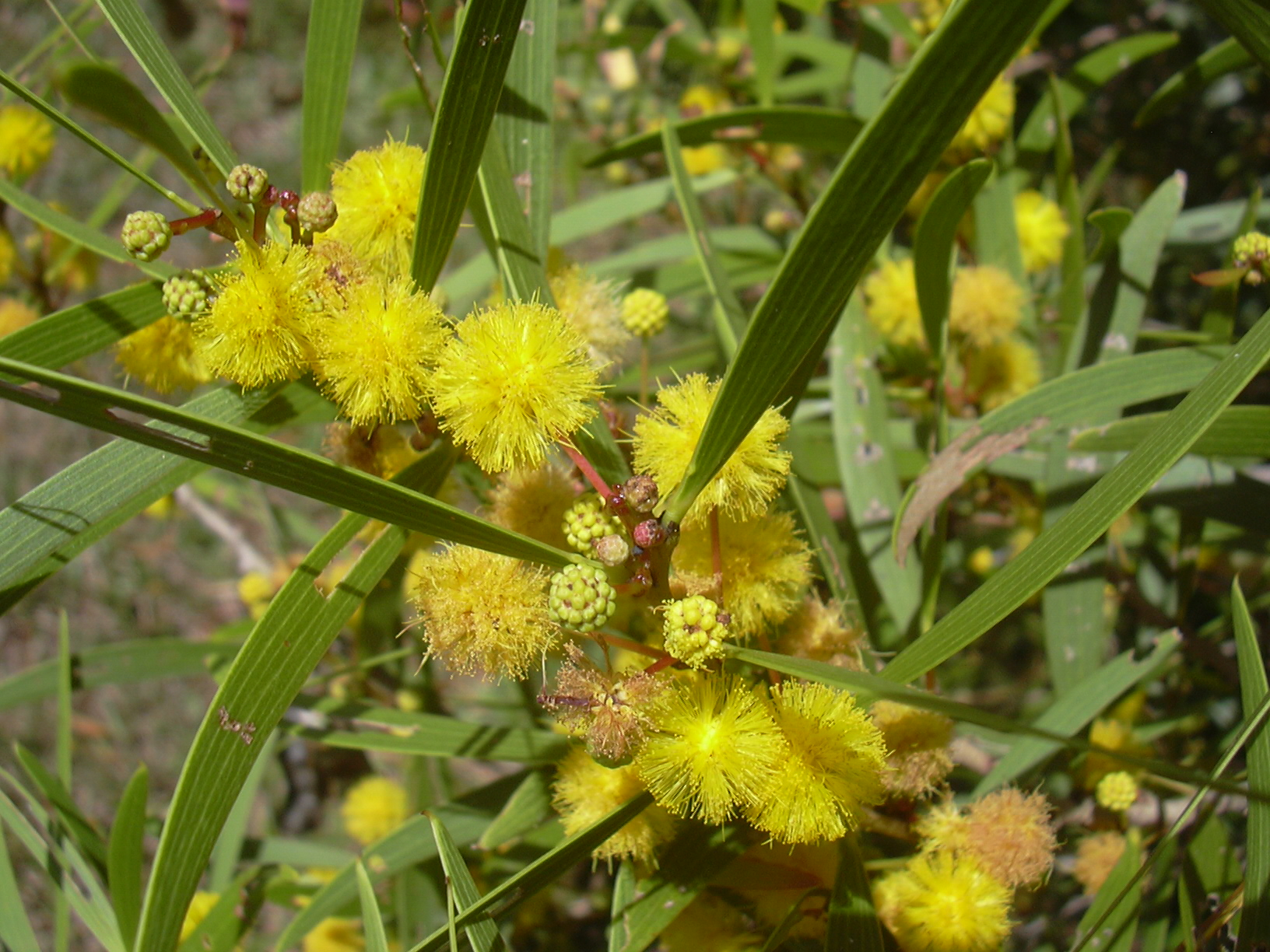 Acacia confusa (flowers). Location: Maui, Kauhikoa hill